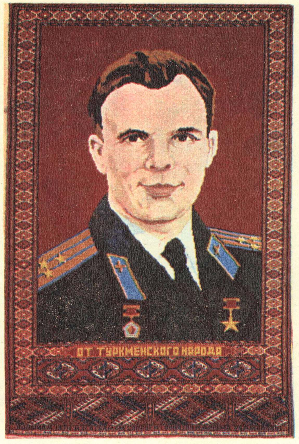 Gagarin. Turkmen carpet.